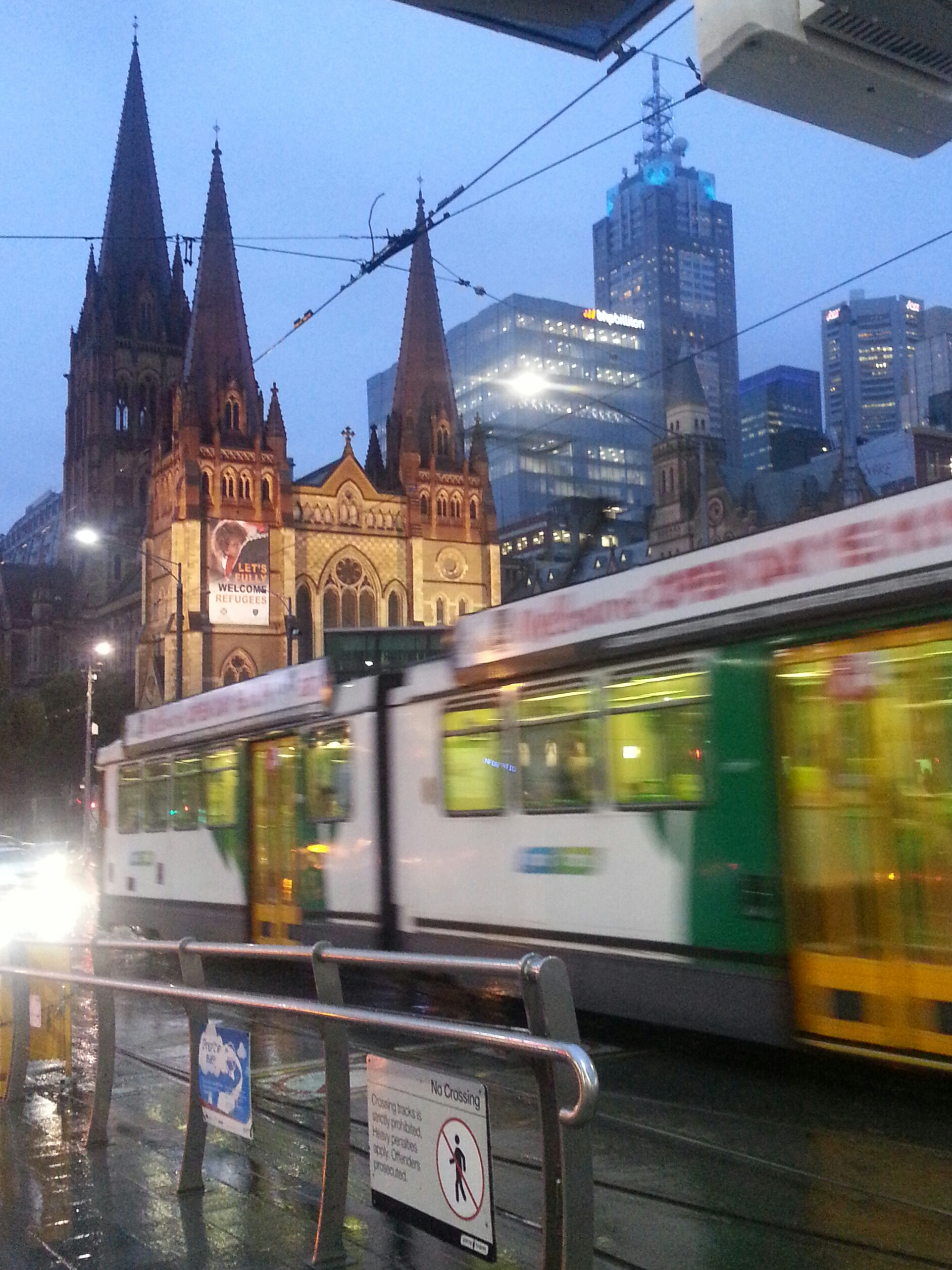 A tram passes St Paul's Anglican Cathedral, Flinders St, Melbourne.